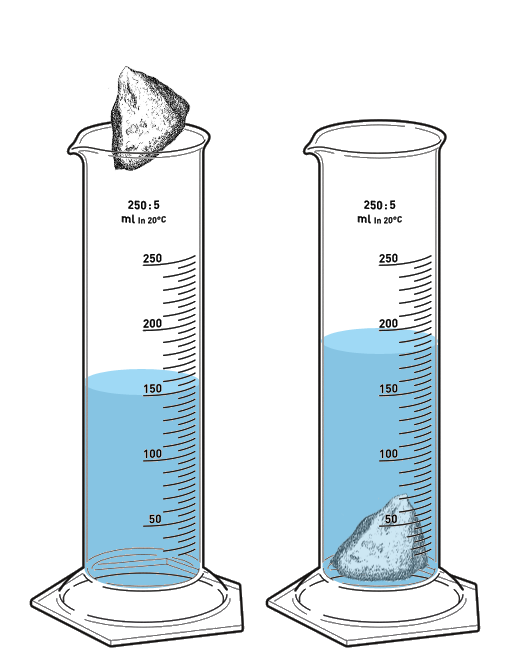 Diagram showing measurement by displacement. Image reuses public domain artwork from and File:Sten i Ämtefall, Ulrika socken (Ulrika 60.1).jpg